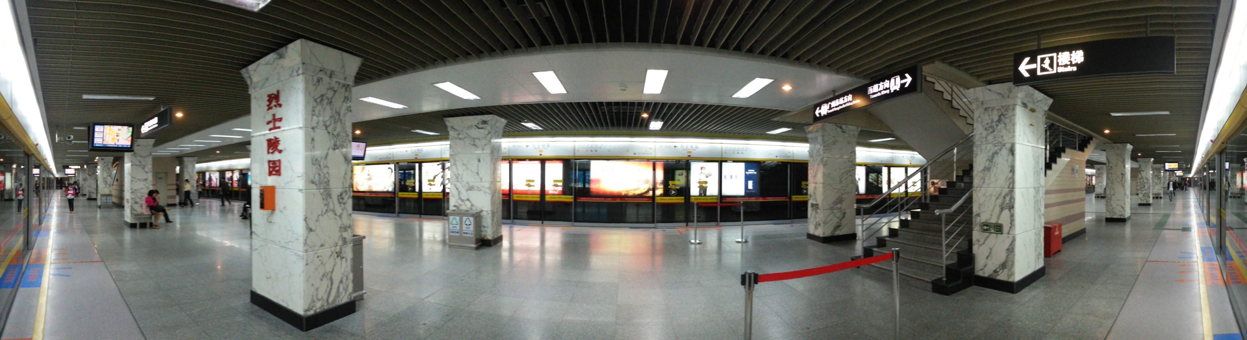 FULL SIGHT of Platform (Towards Xilang) for Martyrs' Park Station in Guangzhou Metro.